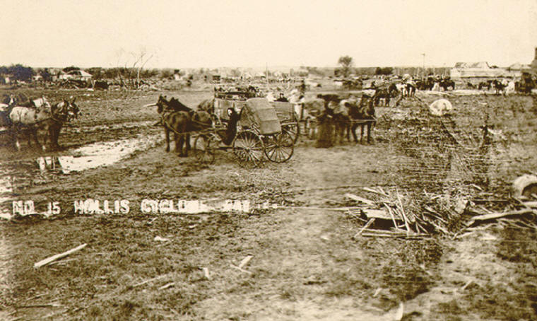 1909 Hollis, Kansas tornado aftermath